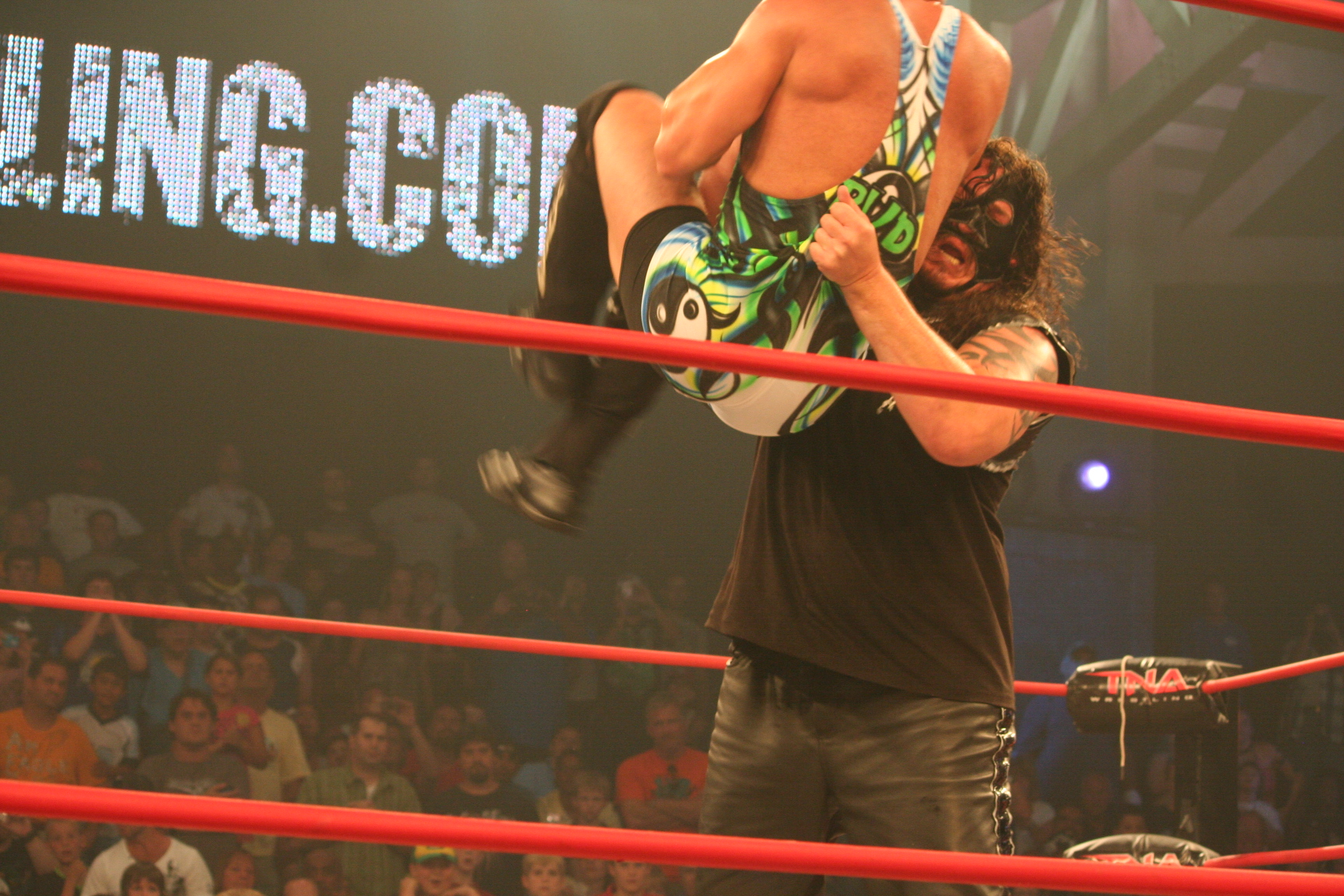 Professional wrestler Abyss performing a chokeslam on Rob Van Dam at a TNA Impact! taping